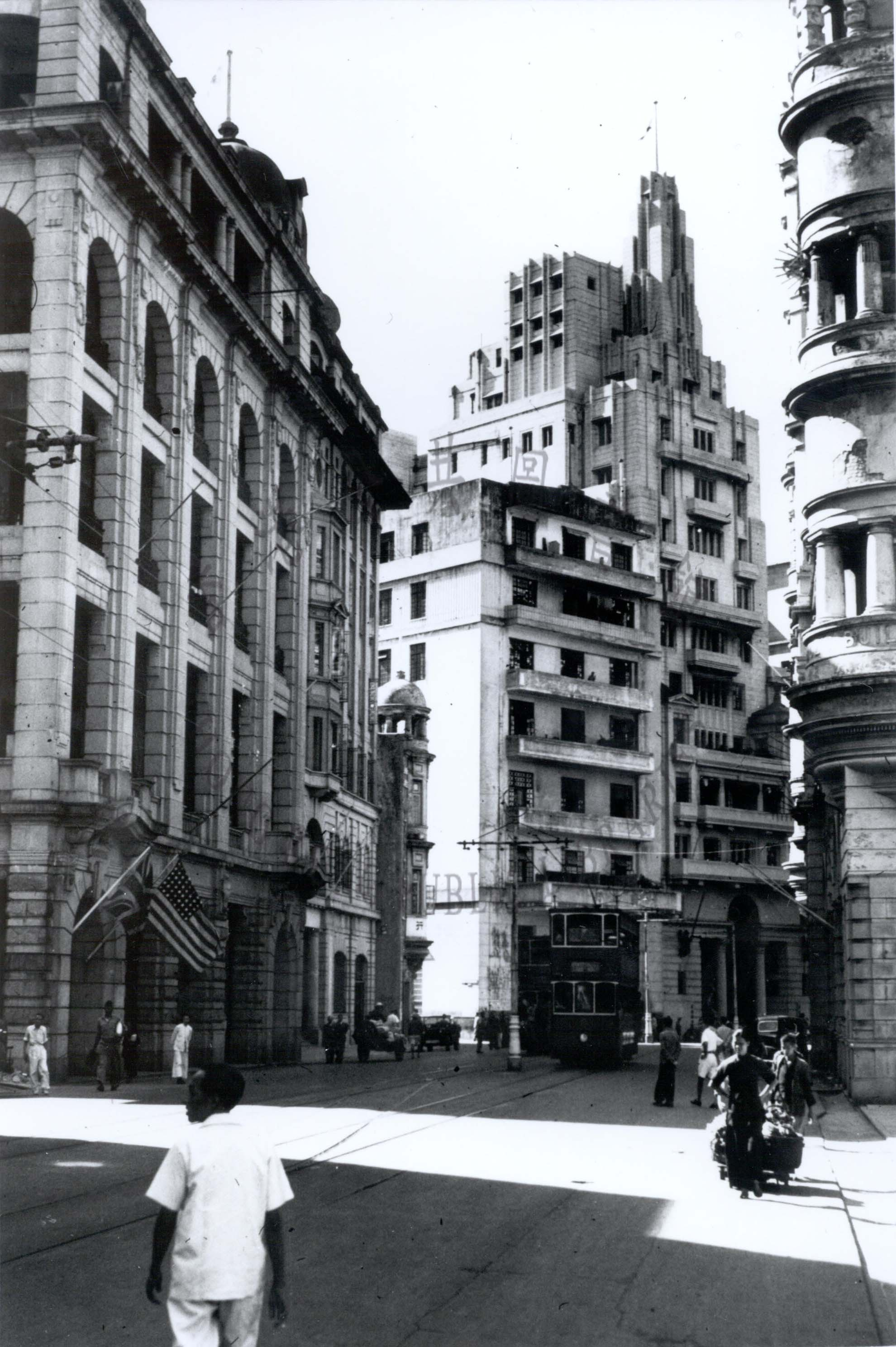 Des Voeux Road Central, Central District, Hong Kong Island, September 1945. In the foreground, on the left, is the Chartered Bank of India, Australia, and China (later named Standard Chartered Bank), and next to it is the Bank of Canton. A tall building, further on the right, is the Bank of East Asia. A corner of Prince's Building is seen on the right. A double-decker tramcar is rounding the bend where Ice House Street crosses Des Voeux Road.